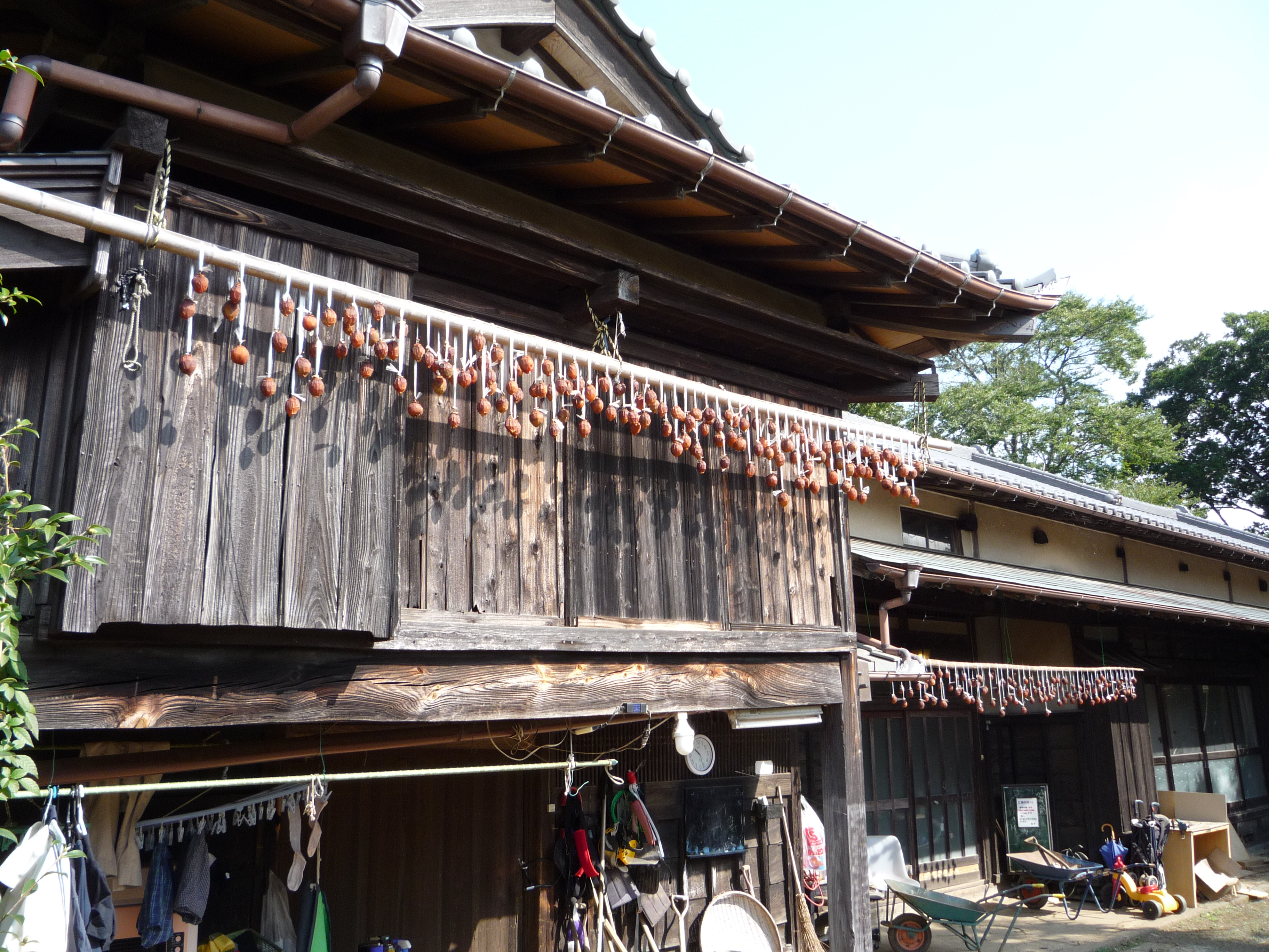 Japanese persimmons hung to dry after fall harvest in Kanagawa, Japan.